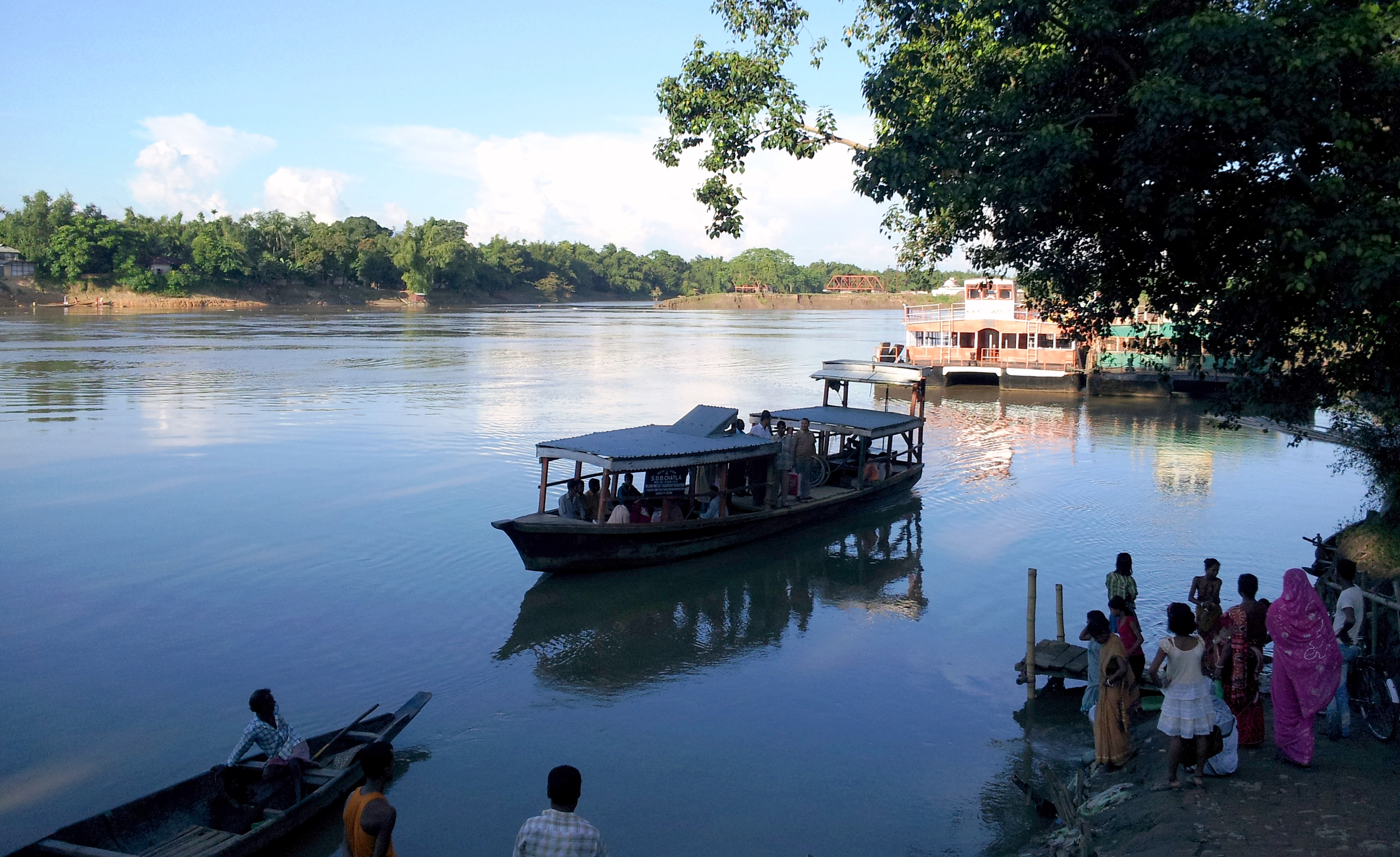 A view of the River Barak in Silchar town,India